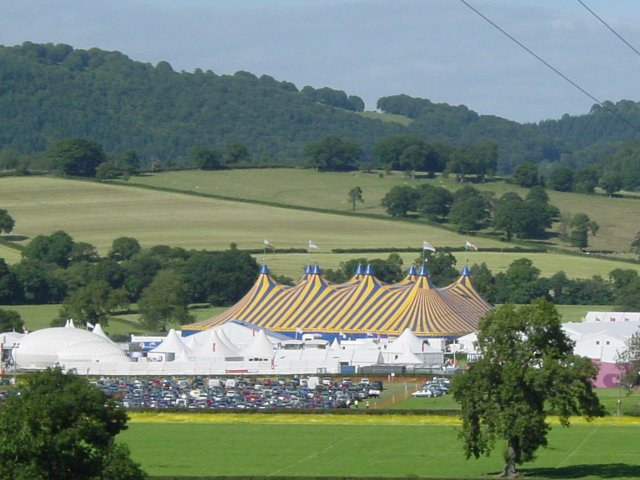 The pafiliwn (pavilion?) and other parts of the site of the Welsh National Eisteddfod August 2003. At grid reference SJ1311 on the fields of Mathrafal Farm, Meifod, Powys, Wales. The photographer writes: "the farm where my maternal grandfather was born; a strange experience, treading the ancestral fields in such circumstances".